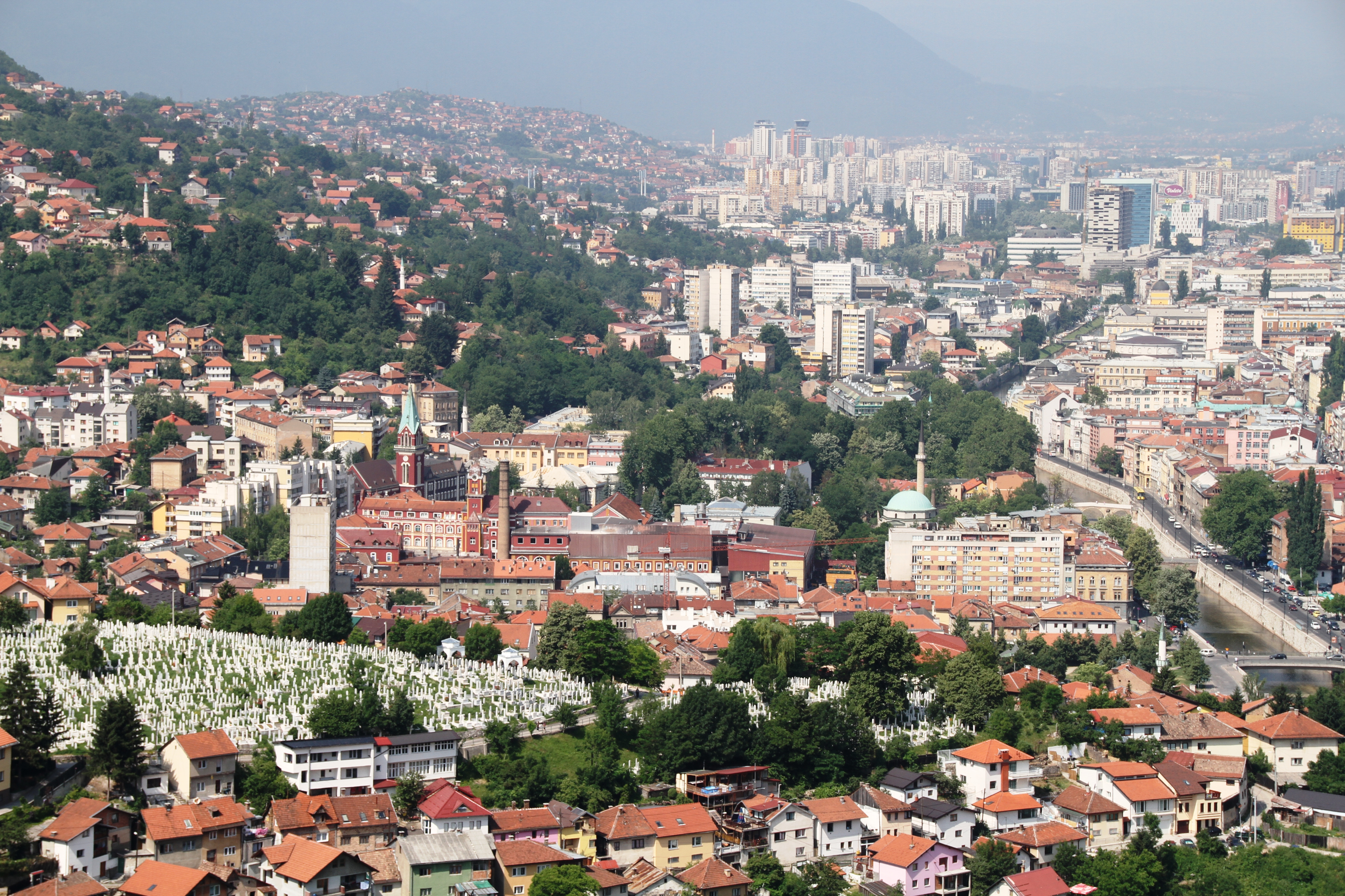 Photo of Sarajevo, capital of Bosnia Herzegovina. The photo is cropped and chosen in such a way that there is no violation of Freedom-of-panorama regulations.